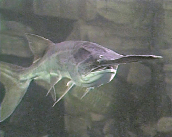 author: Earthwave Society, date: 1994 Note: Permissions has blanket license submitted by Earthwave Society 29/06/2014, acknowledged by permissions 11/07/2014. Also a cc-by-sa-3.0 license statement on home page of EWS. See it here [1] Atsme☯Consult 05:24, 5 September 2014 (UTC)